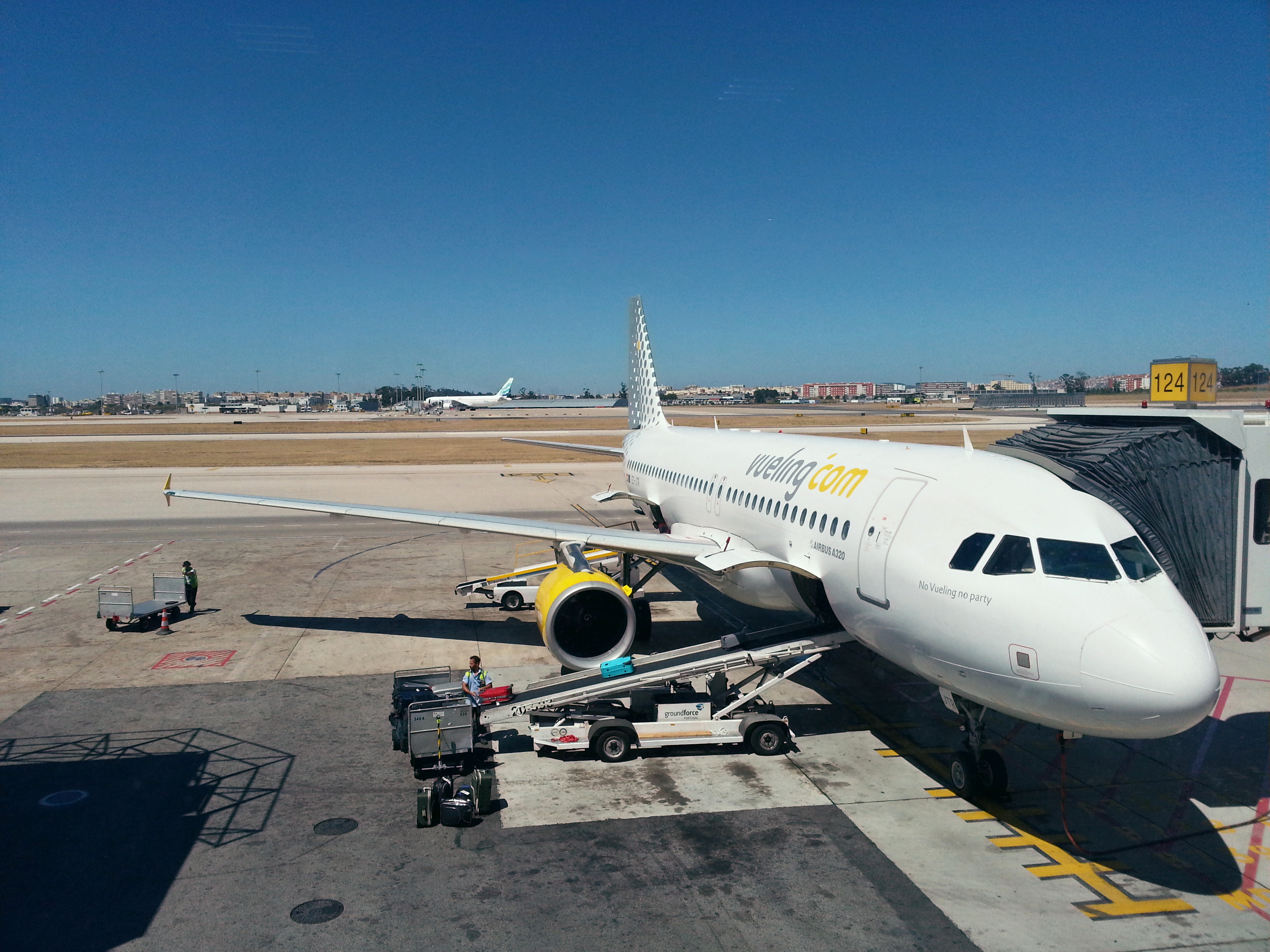 A Vueling A320 at Lisbon Portela Airport.